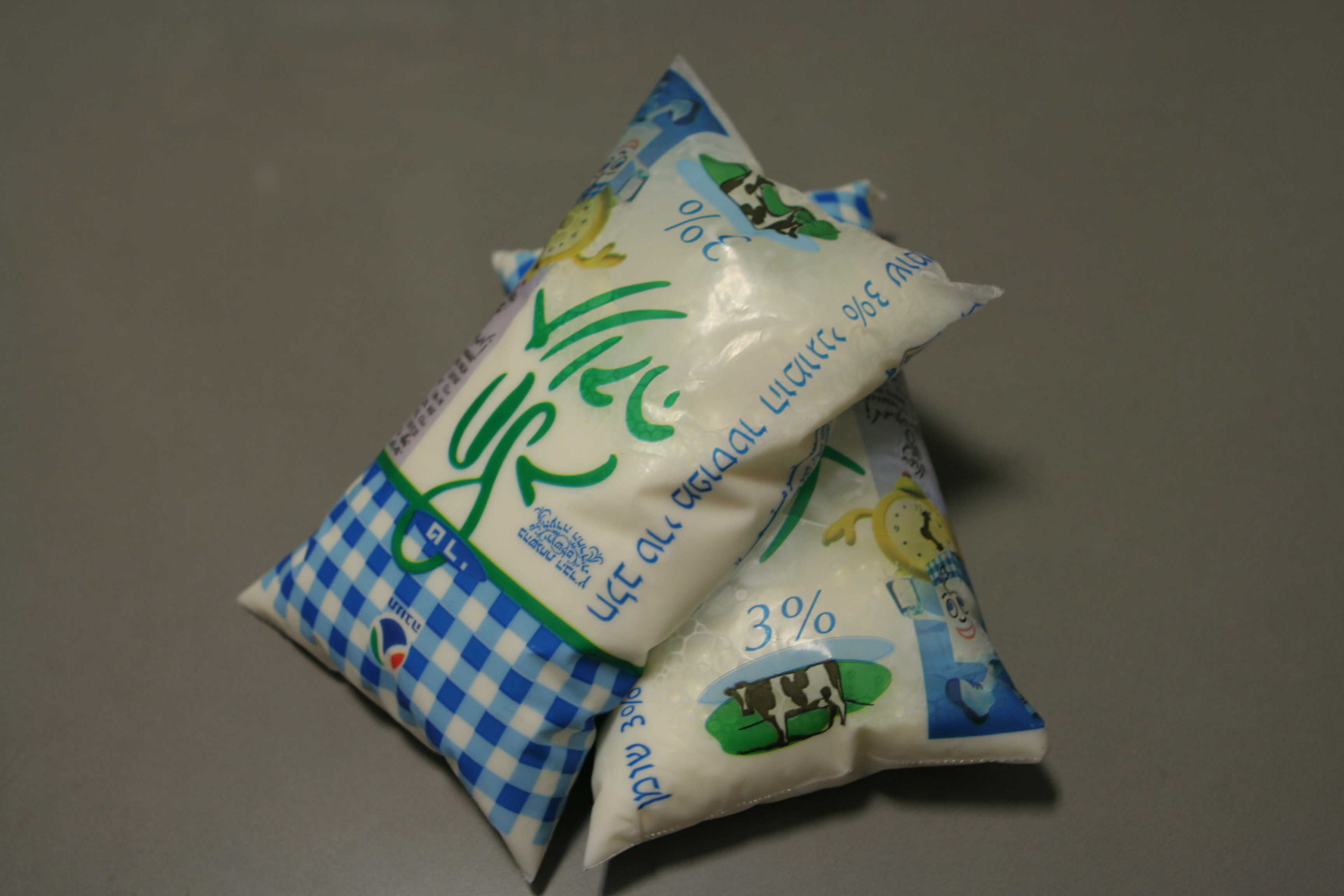 Israeli Plastic Milk Bags - recomanded for recycling